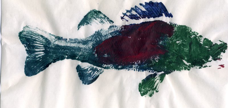 Theocharis Athanasakis (me) & Sachiko Kitagawa. Gyotaku print made by me & Sachiko Kitagawa using a rubber fish replica. Scanned by me.